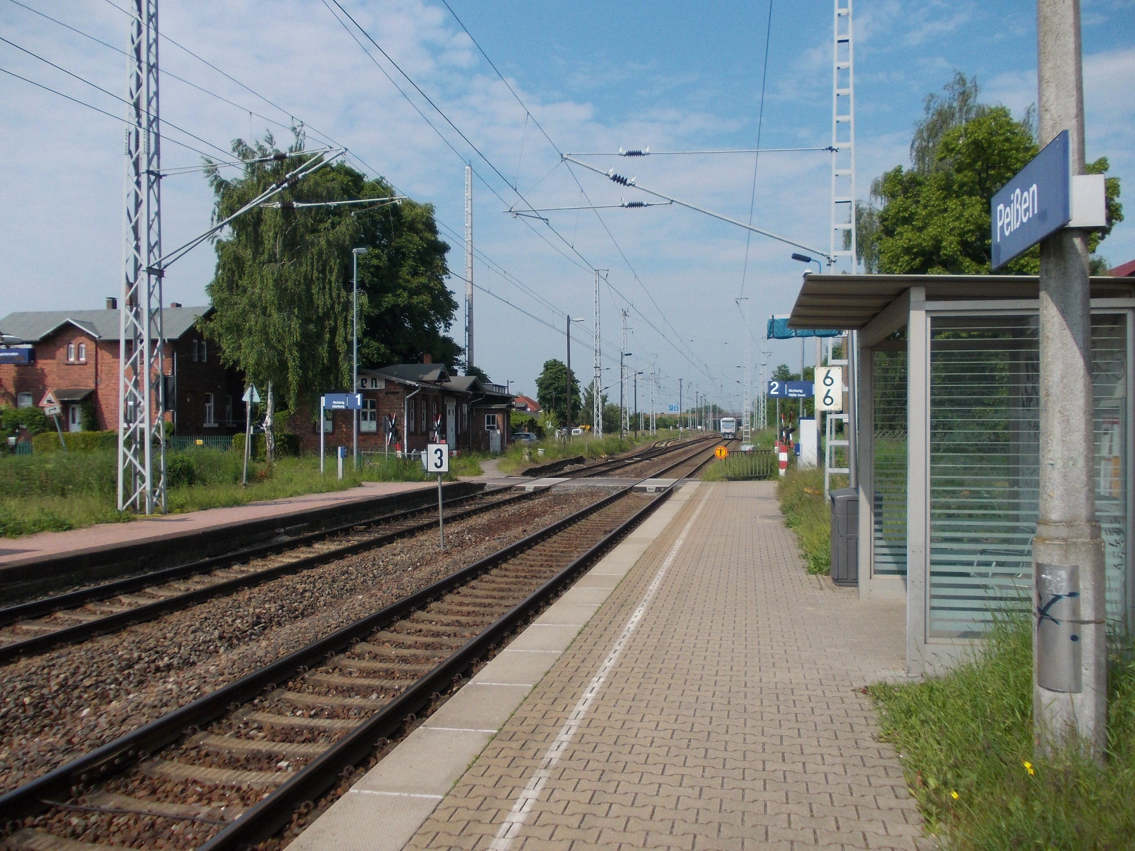 Peissen train station (Landsberg, district: Saalekreis, Saxony-Anhalt)